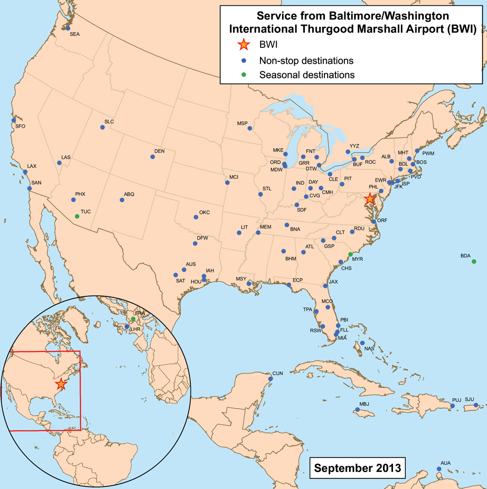 This is a route map for Baltimore-Washington International Thurgood Marshall Airport serving the Baltimore-Washington Metropolitan Area. Map is an Azimuthal equidistant projection centered on the airport so straight lines from BWI are along great circle routes. Source.